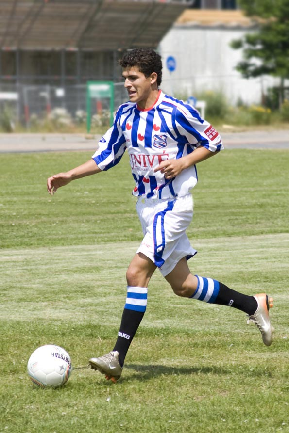 Tarik Elyounoussi